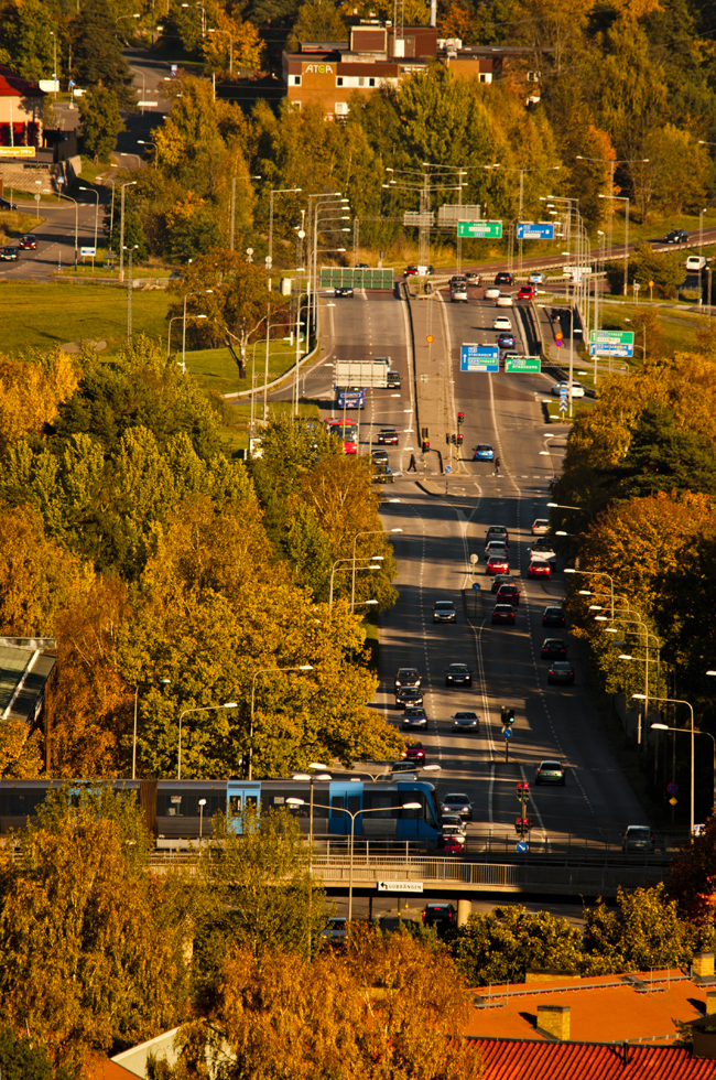 The 229 road Orbymainroad at Hökarängen captured from the Högdalen hills oct 2011